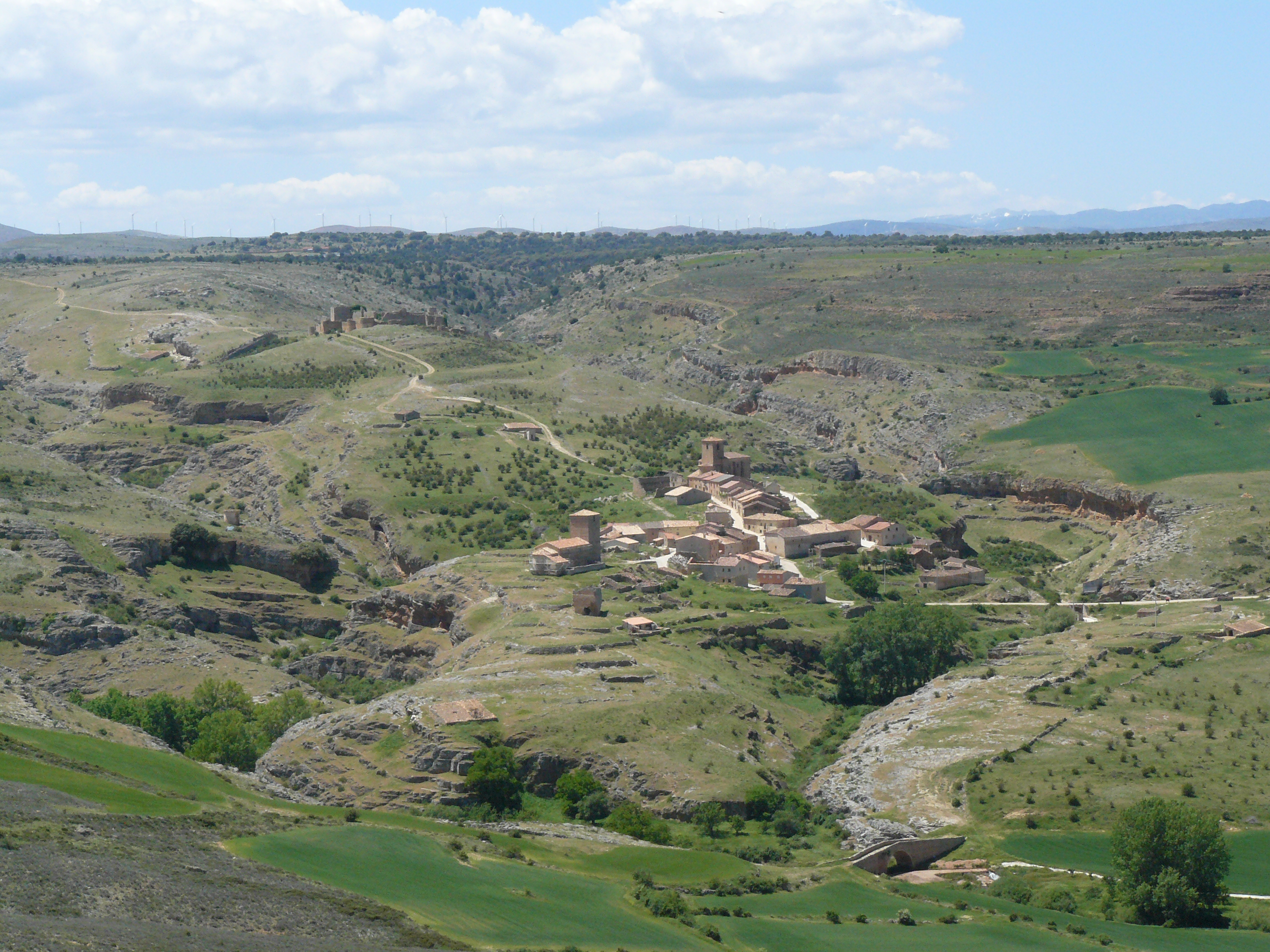 View of Caracena (Soria, Spain) from the East.